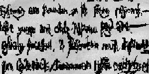 A photocopy of a portion of the manuscript of Geoffrey de Runcey's chronicle, c.1370s (Wisbech museum A version).